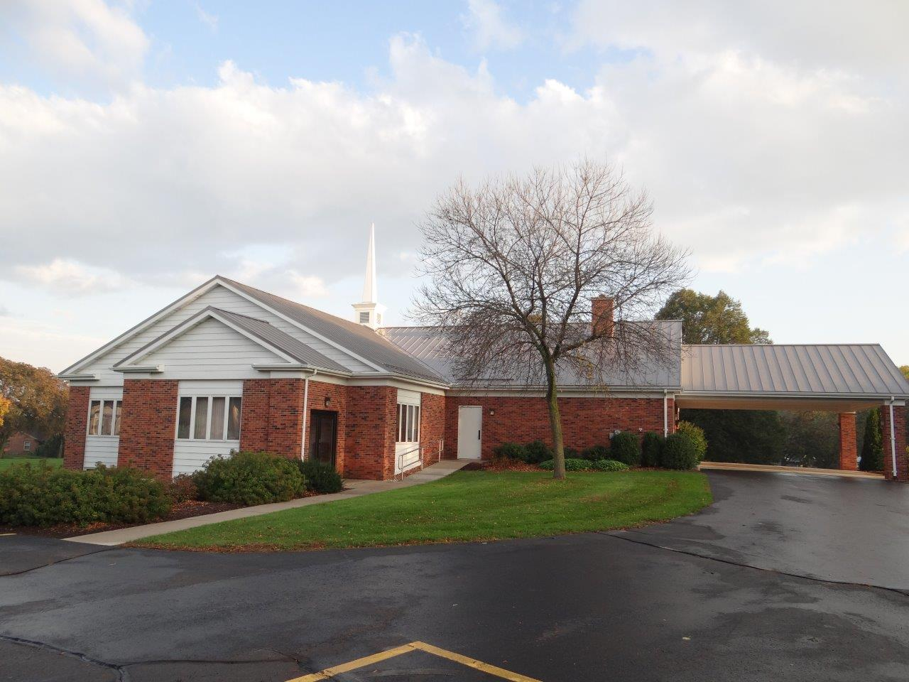 Netherlands Reformed Congragation Sheboygan Wisconsin